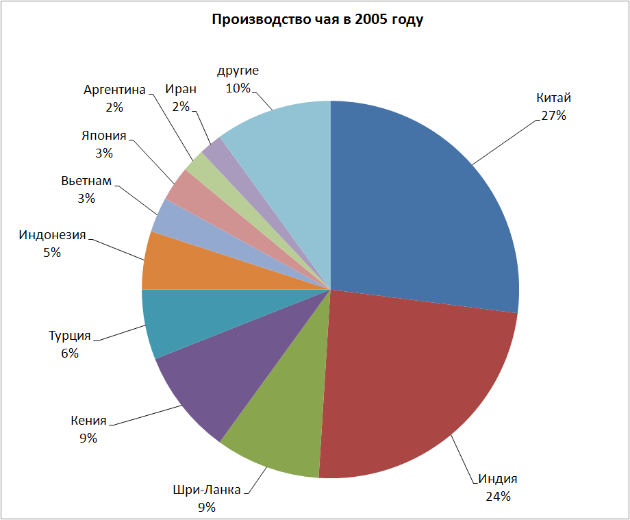 Tea production in 2005 by countries